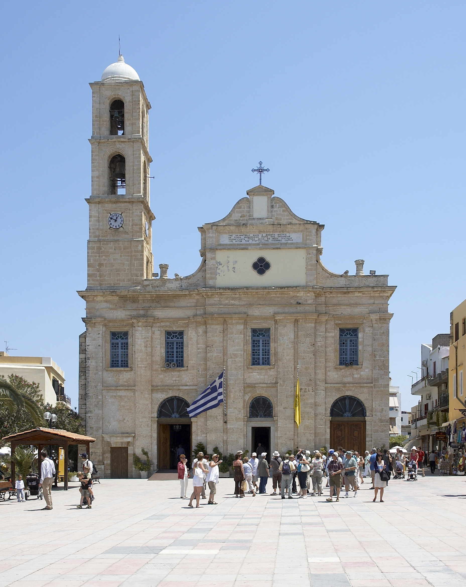 The Cathedral of the Presentation of the Virgin Mary (Trimartiri) in Chania